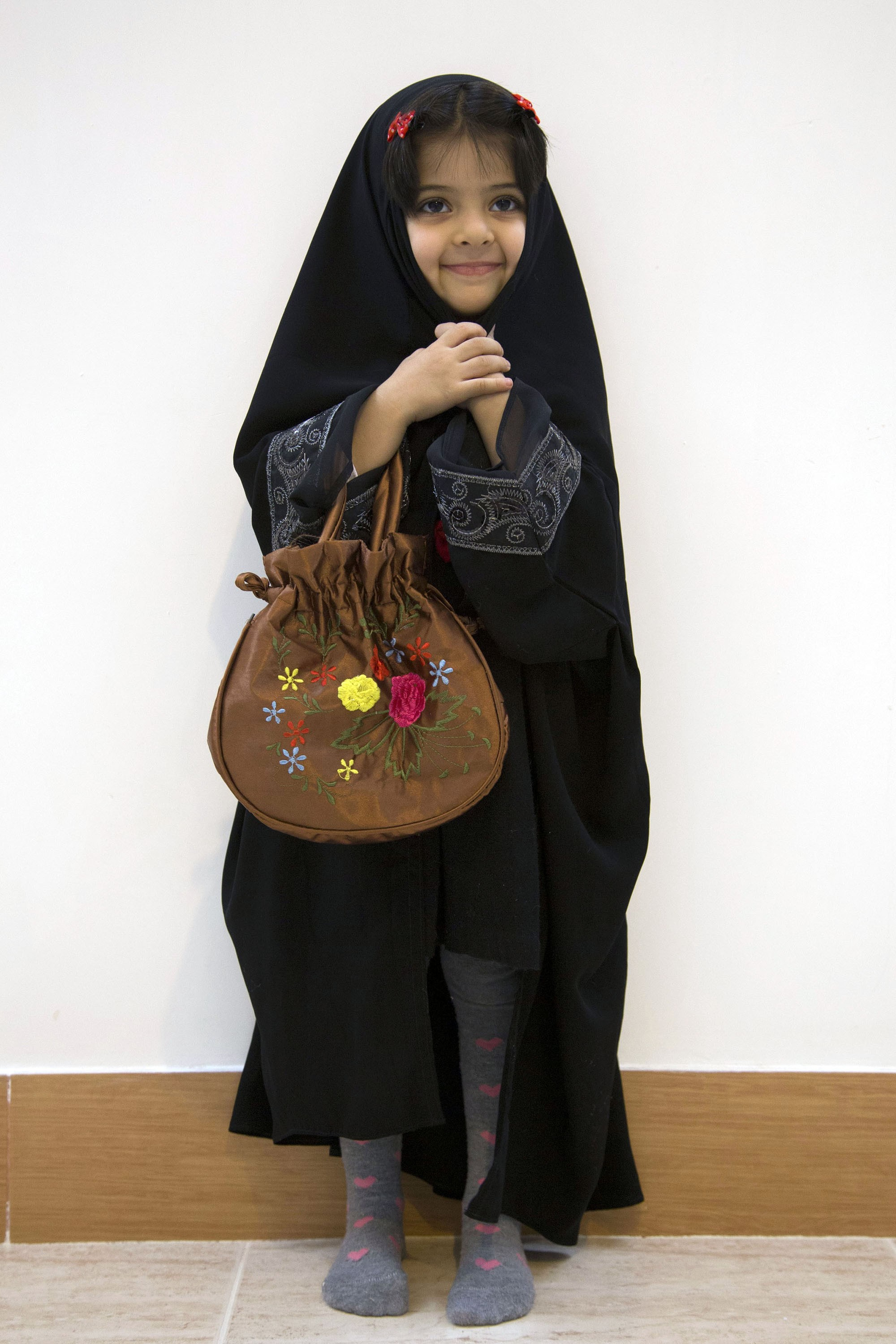 Biologically, a child (plural: children) is a human being between the stages of birth and puberty.